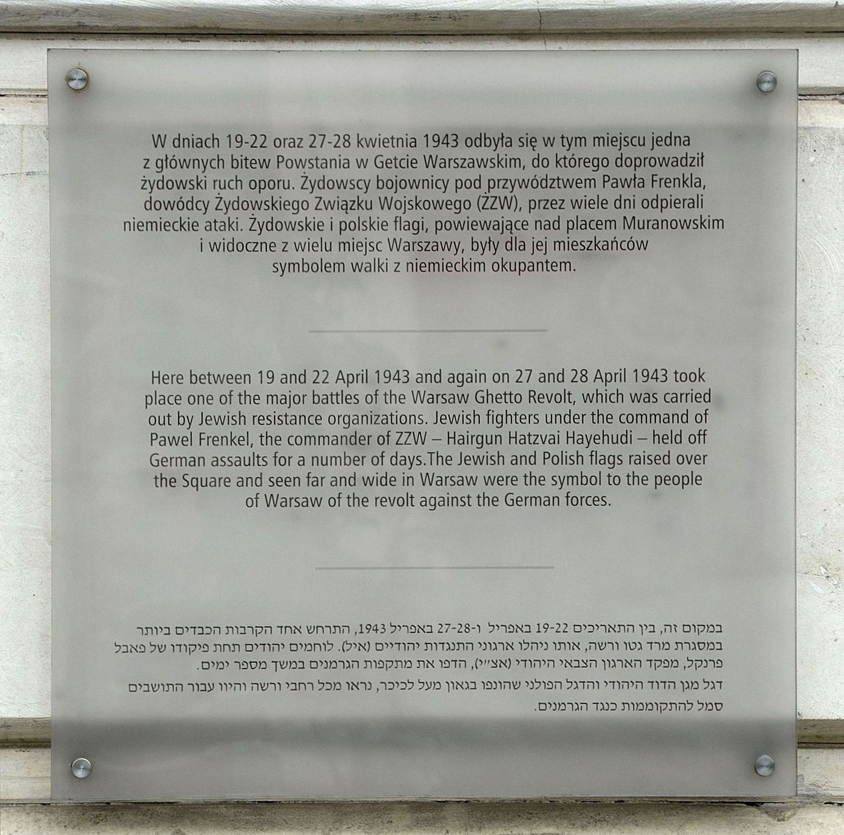 Plaque commemorating fights at Muranowski Square during Warsaw Ghetto Uprising at 1 Muranowska Street